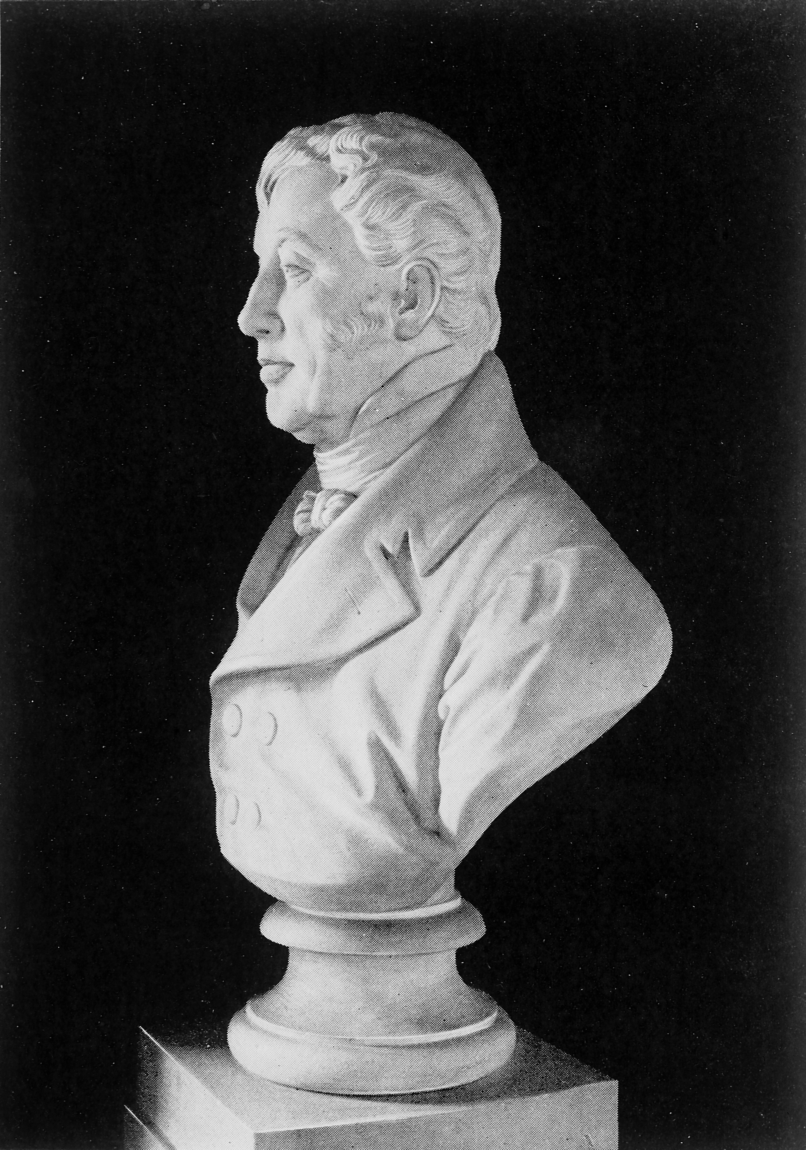 Bust of Charles White, F.R.S.; taken from bust by E. G. Papworth, in the Royal Infirmary, Manchester, presented by Charles Jordan, 1886. Wellcome Images